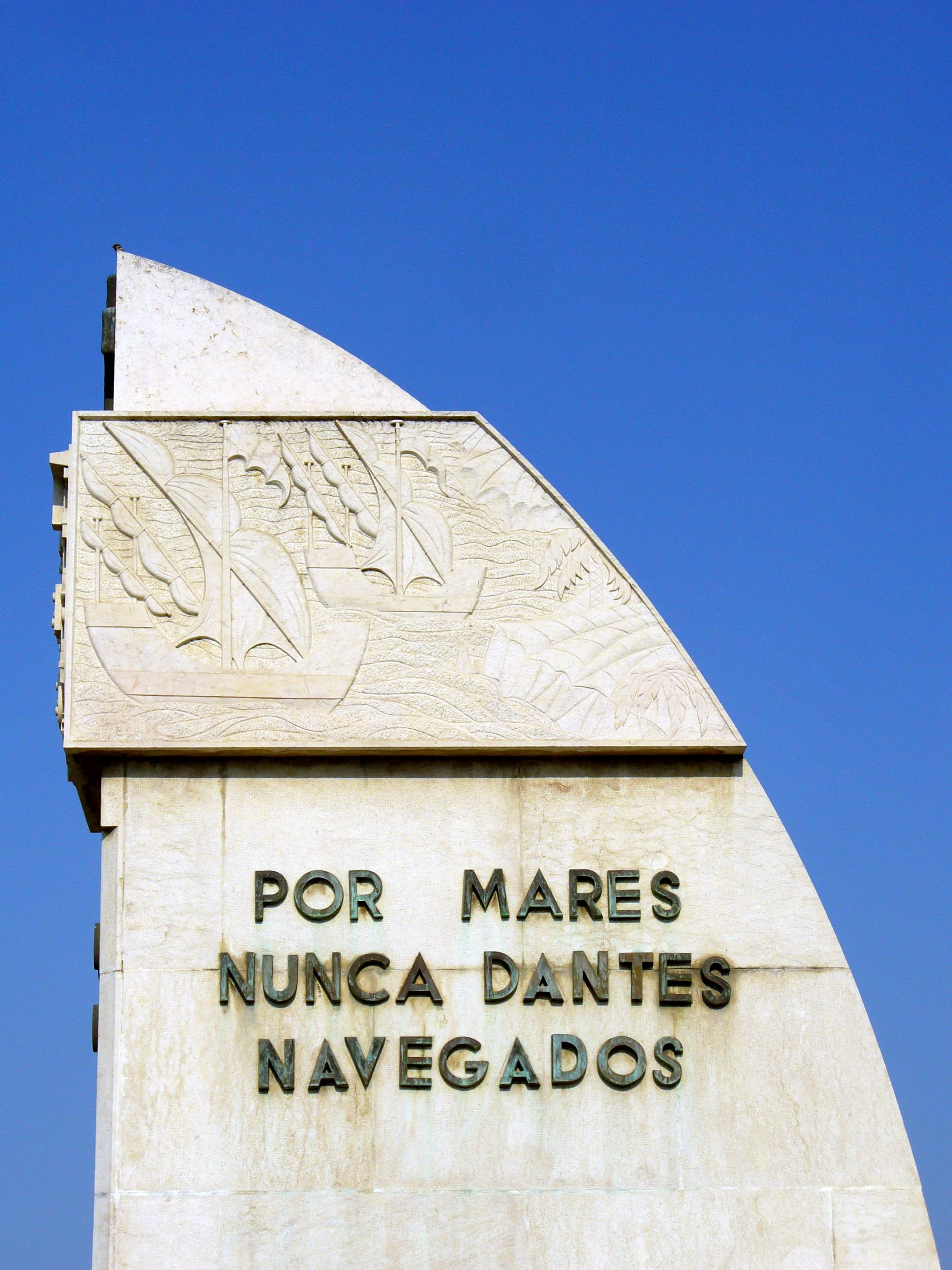 Monument of Prince Henry the Navigator, Dili, East Timor